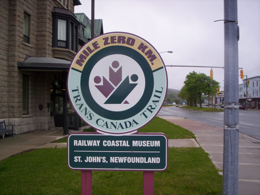 Trans Canada Trail Zero KM sign in St. John's, Newfoundland